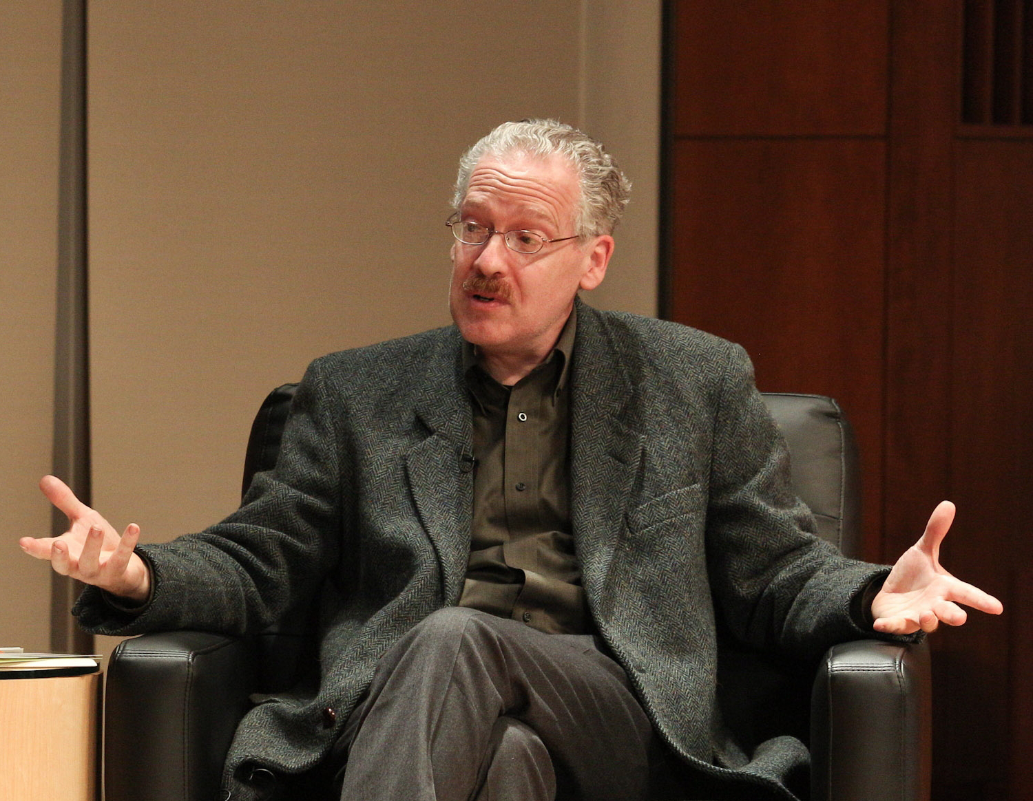 Photograph of Lawrence M. Principe, Taken at the 2012 Science and Secularization Symposium, October 17, 2012, Chemical Heritage Foundation, Philadelphia, PA, USA.